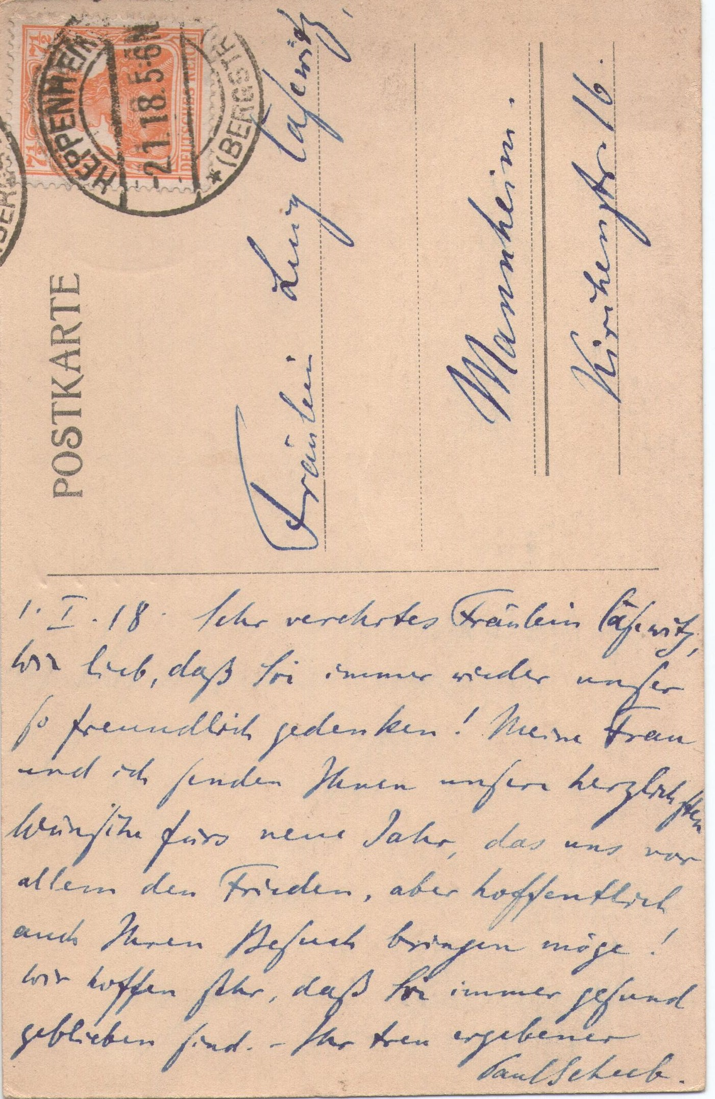 Paul Geheeb (1870-1961), founder of the Odenwaldschule, postcard to Jenny Casewitz, Mannheim, 1.1.1918. Collection Markus Wolter